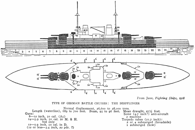 Left elevation and plan diagrams of German Derfflinger class battlecruiser.